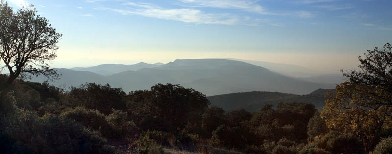 "Petit" (small) Luberon from the "Grand" (tall) Luberon (84), France. It is a view from est to west.